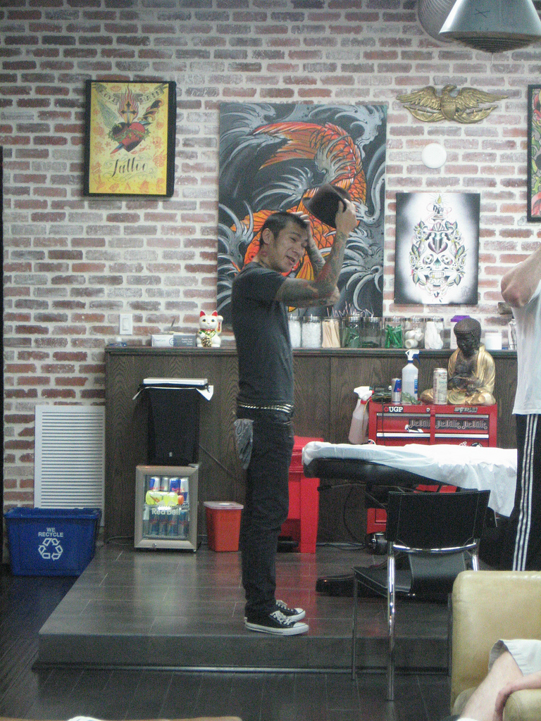 Yoji, the apprentice from Miami Ink